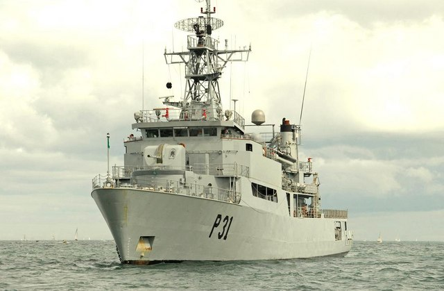 Tall ships, Belfast Lough (26). See 1449075. The Irish Naval Service's patrol boat LE "Eithne" on the Co Down side of the lough. Continue to 1449091.